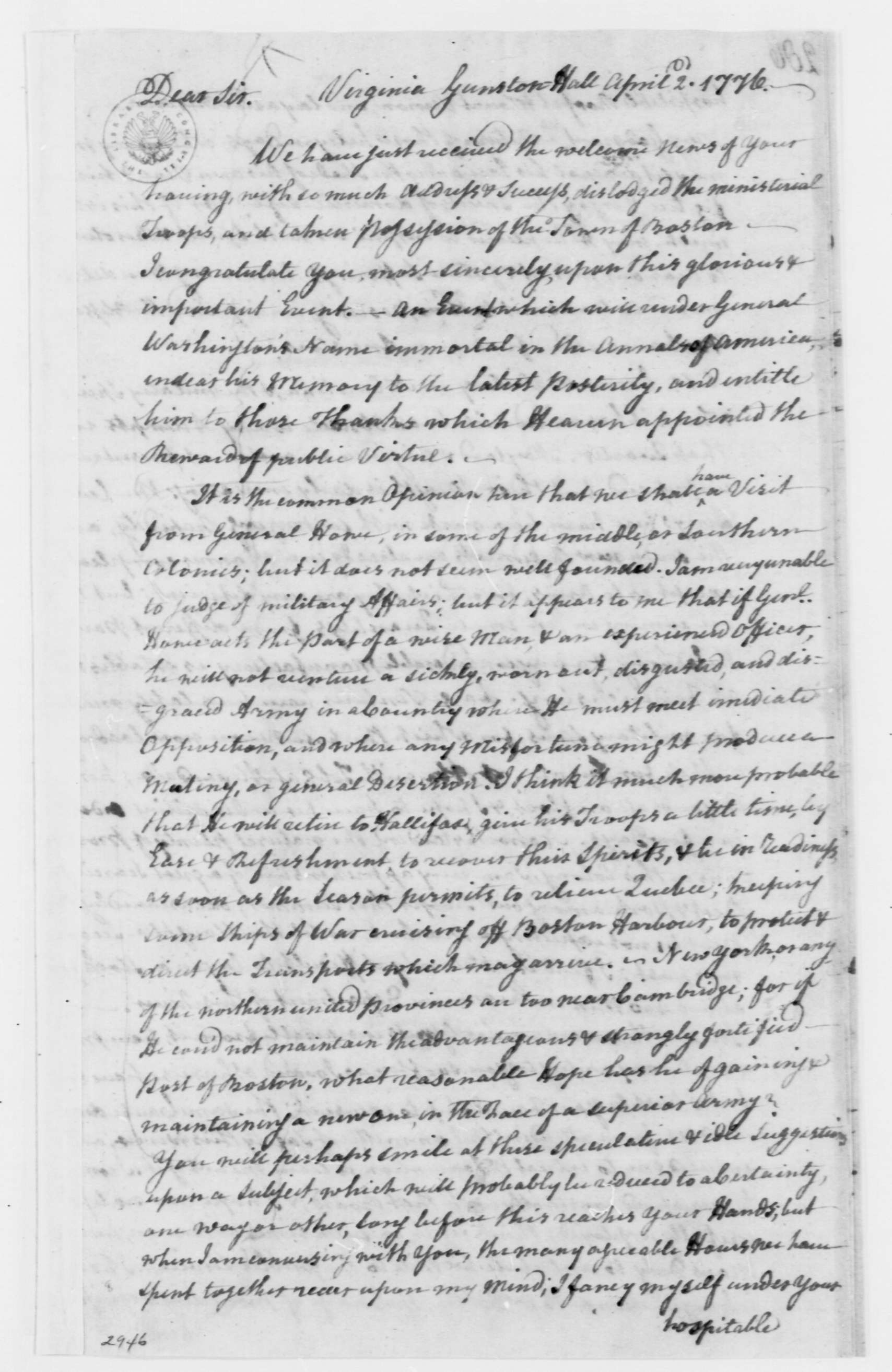 Letter from George Mason at Gunston Hall to George Washington congratulating Washington on the victory of Continental Army forces at Boston, Massachusetts. "George Washington Papers, General Correspondence, Series 4, The Library of Congress, Washington, D. C.